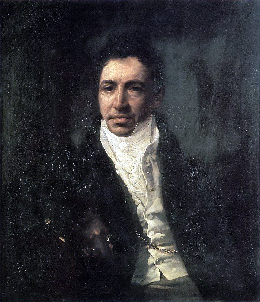 Karl Brulloff. Portrait of the Secretary of State Piotr Kikin. 1821-1822. Oil on canvas. The Tretyakov Gallery, Moscow, Russia.